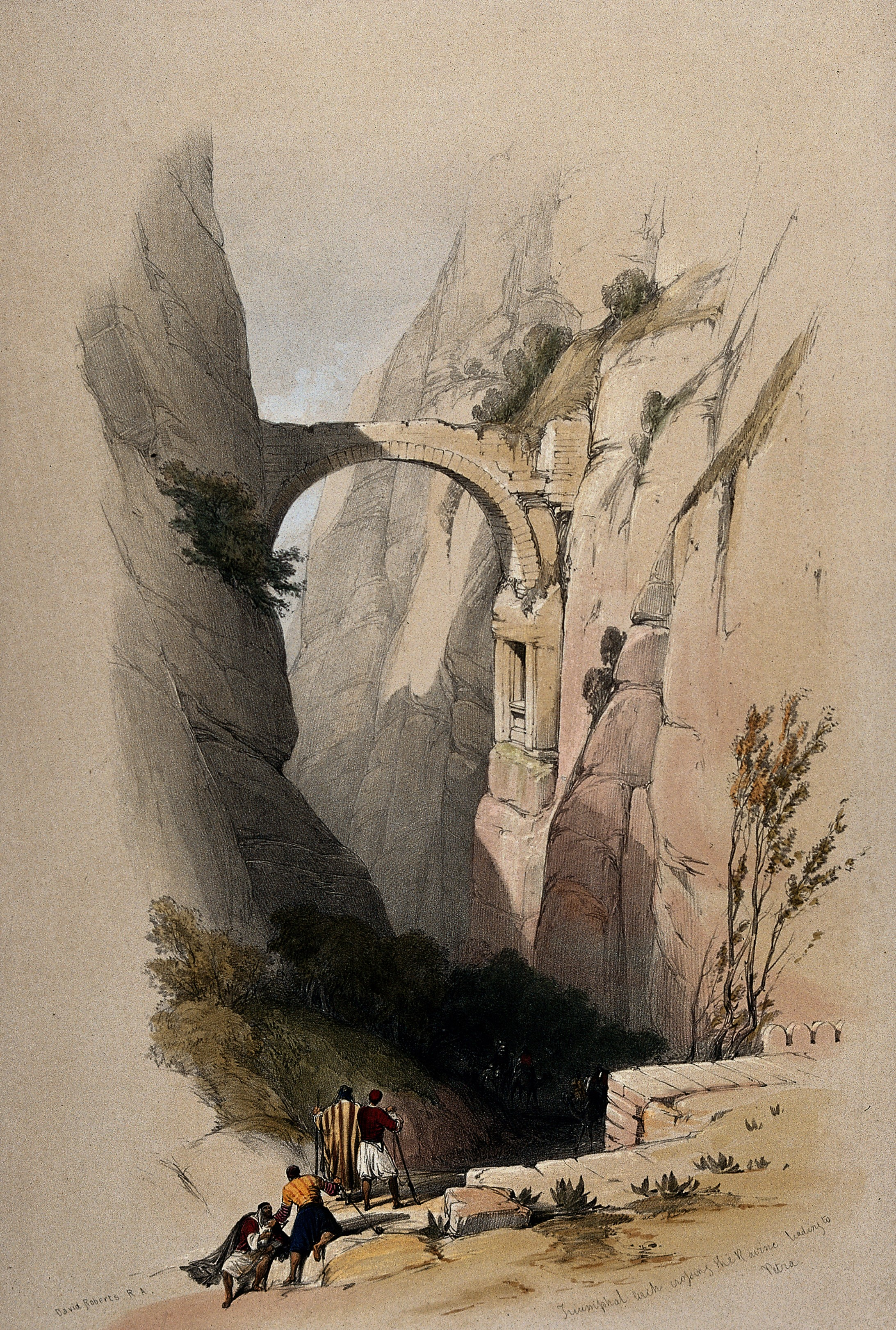 Arch crossing a ravine near El Sik. Coloured lithograph by Louis Haghe after David Roberts, 1849. Iconographic Collections Keywords: David Roberts; Louis Haghe